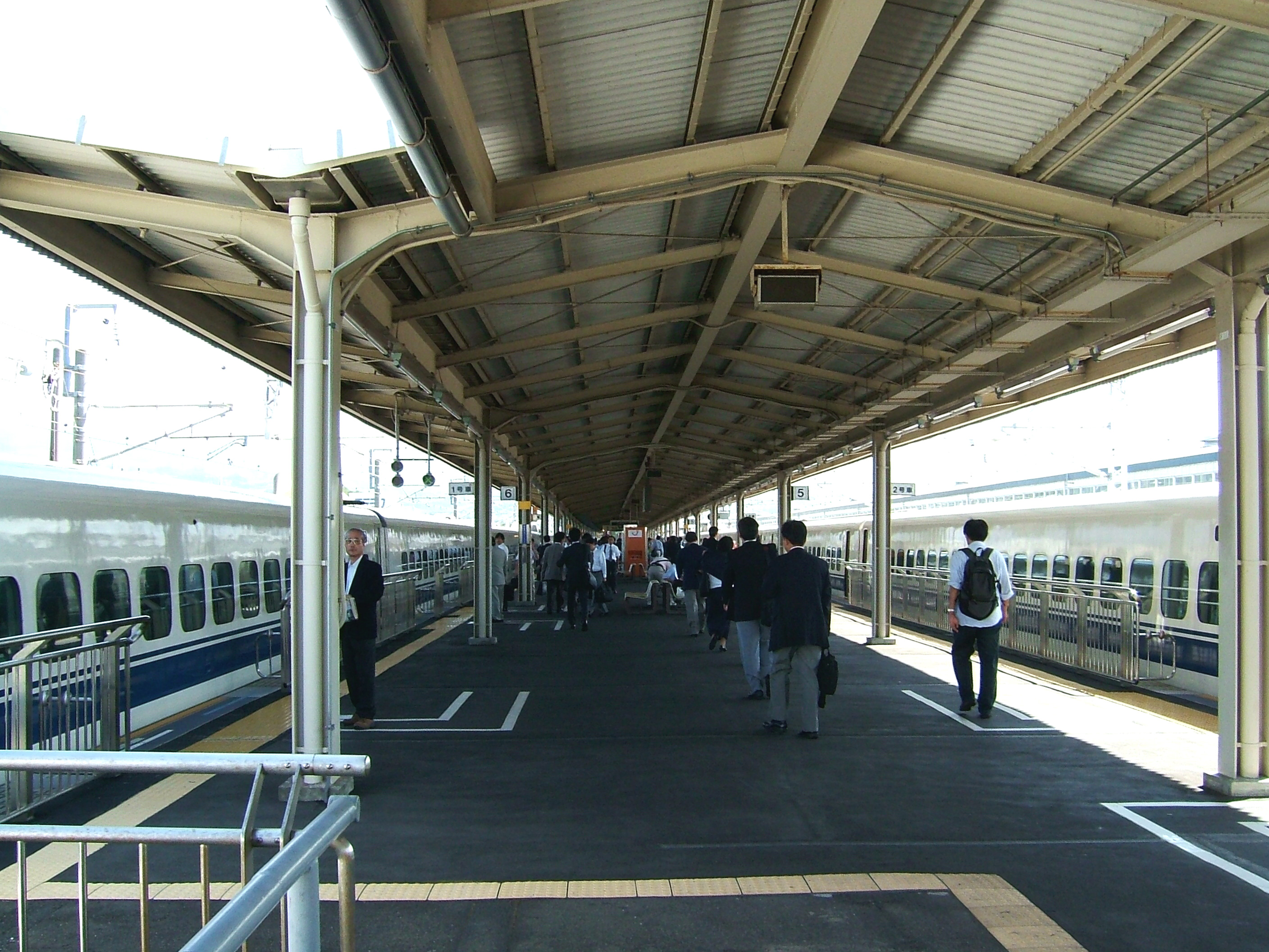 The platform at Mishima Station, Tokaido Shinkansen